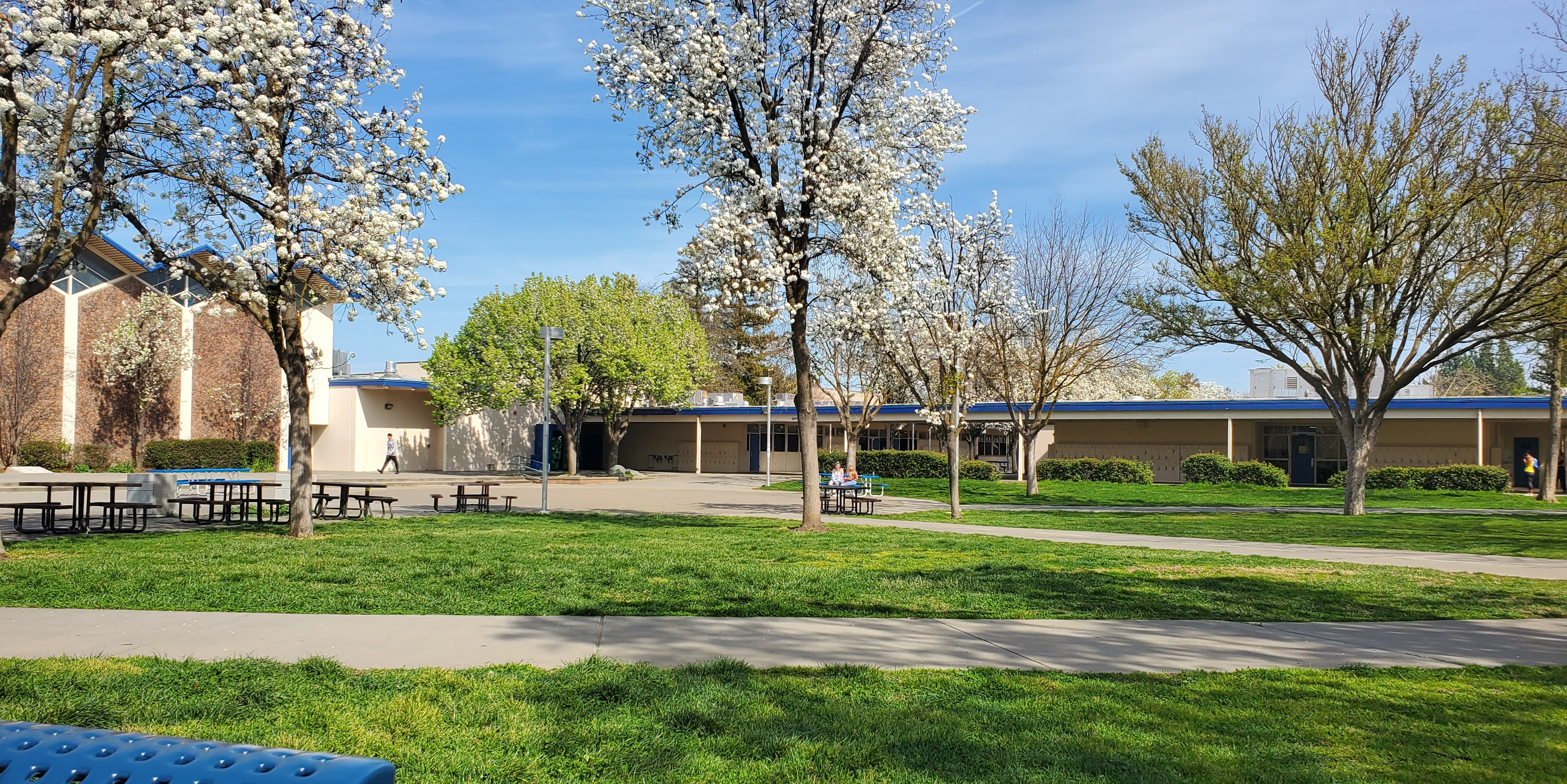 The Davis Senior High School quad at the beginning of spring.